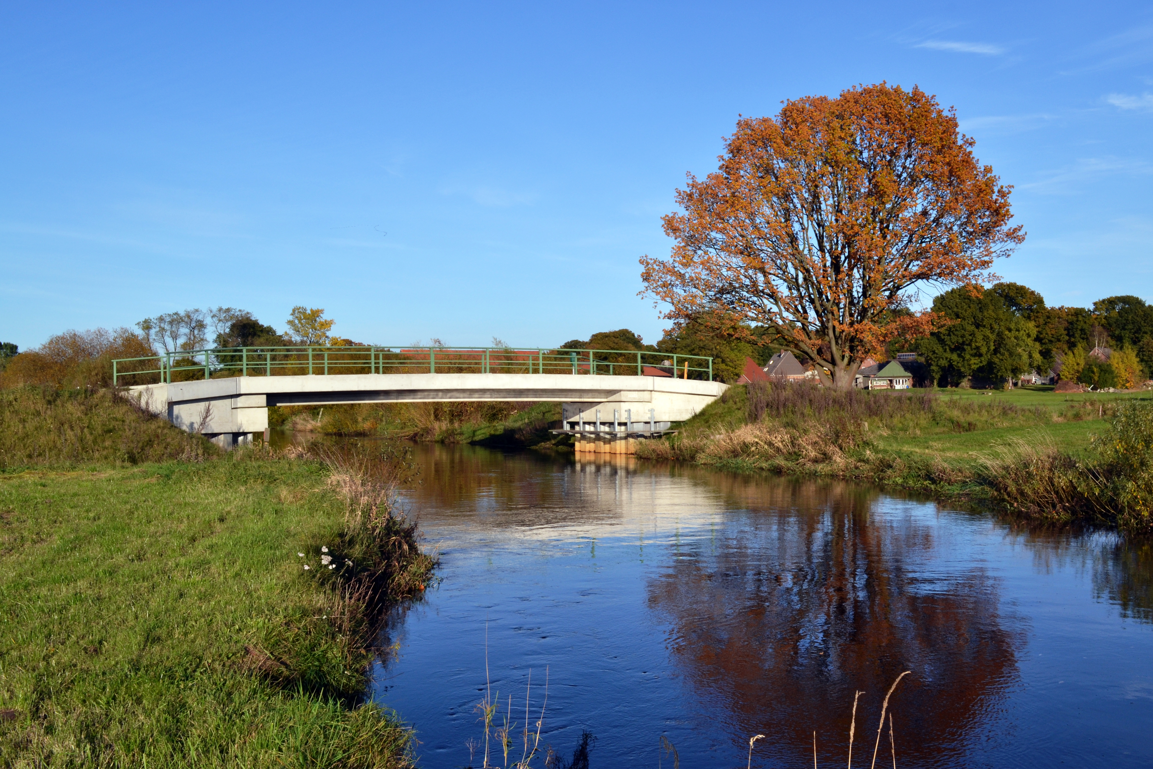 Oste-Bridge in area of the town part Minstedt of the town Bremervörde.